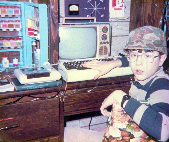 This was the computer, my first computer, that forever changed my life and set me on the path I'm on today. I think I was in 7th grade in this photo. After the VIC-20 followed the C=64, then my favorite, the C=128. When I went into the Navy I had to sell off my computers, but after my training I got an Amiga 500. However, I still have fond memories of those early days of sitting down with a Commodore magazine and typing in a program for hours to play a game or do something cool. There was something magical about those days, so I was thrilled when I found this old photo of those great days!